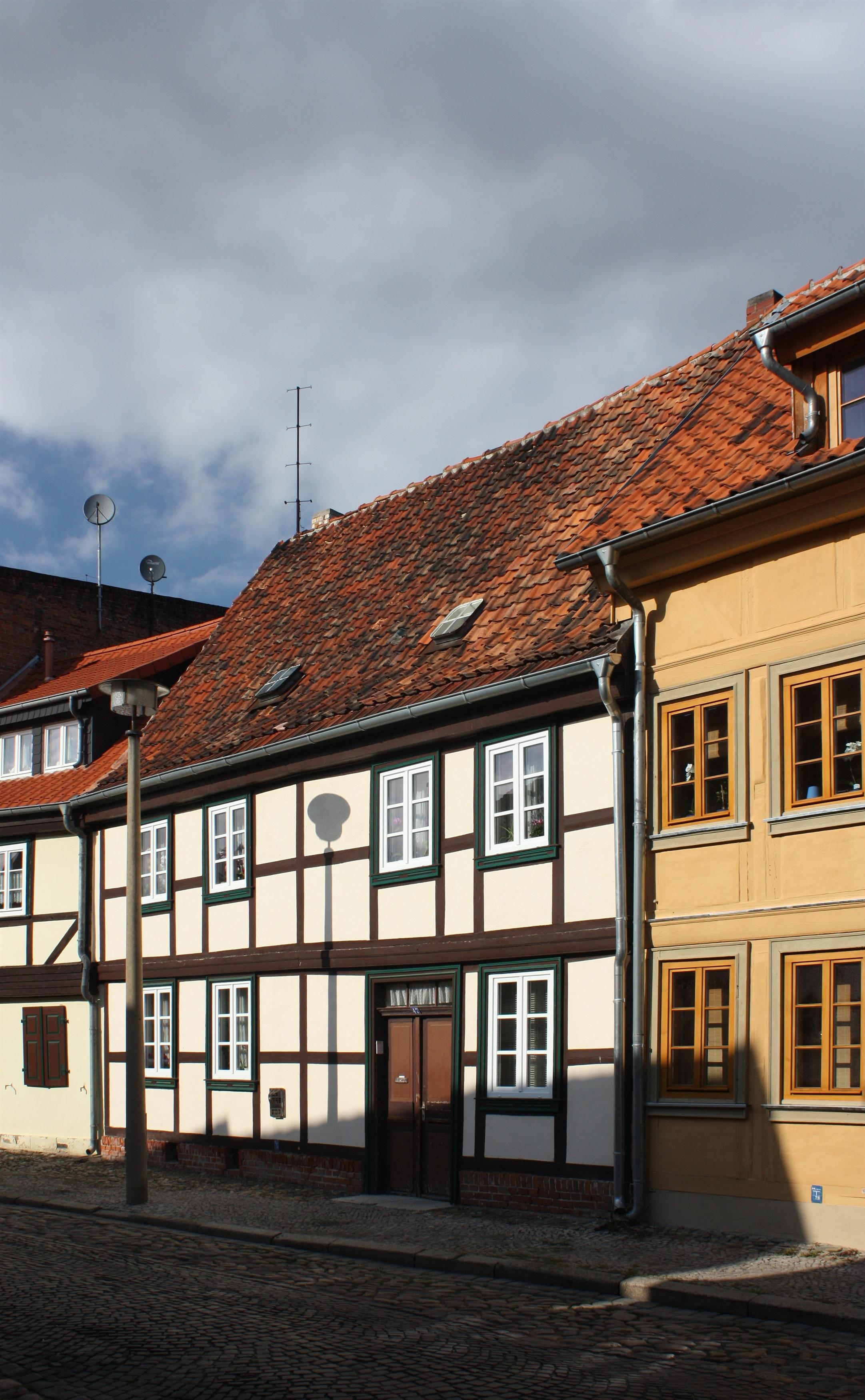 This is a photograph of an architectural monument.It is on the list of cultural monuments of Quedlinburg Augustinern 47 in Quedlinburg